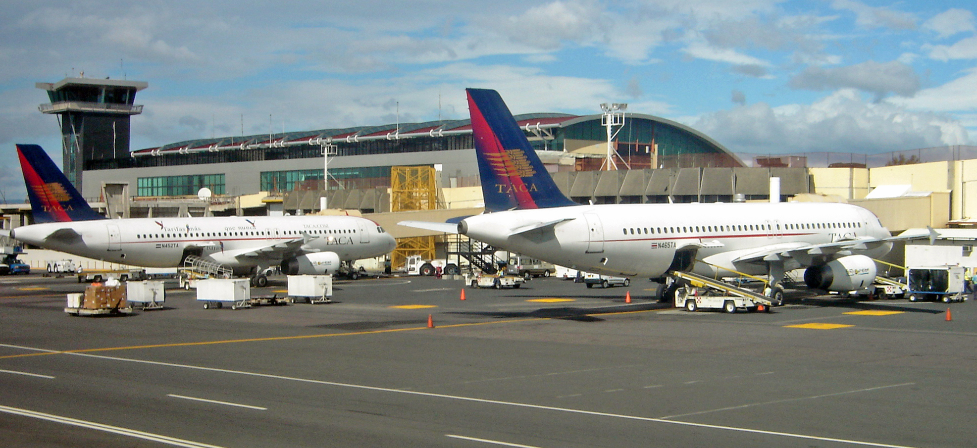 Two Airbus from Grupo TACA at Juan Santamaria International Airport (SJO), Costa Rica